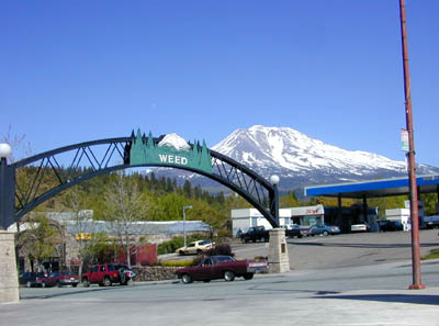 Entrance to the town of Weed with Mt. Shasta in the distance. Digital photograph taken by Eric Guinther on April 29, 2004.